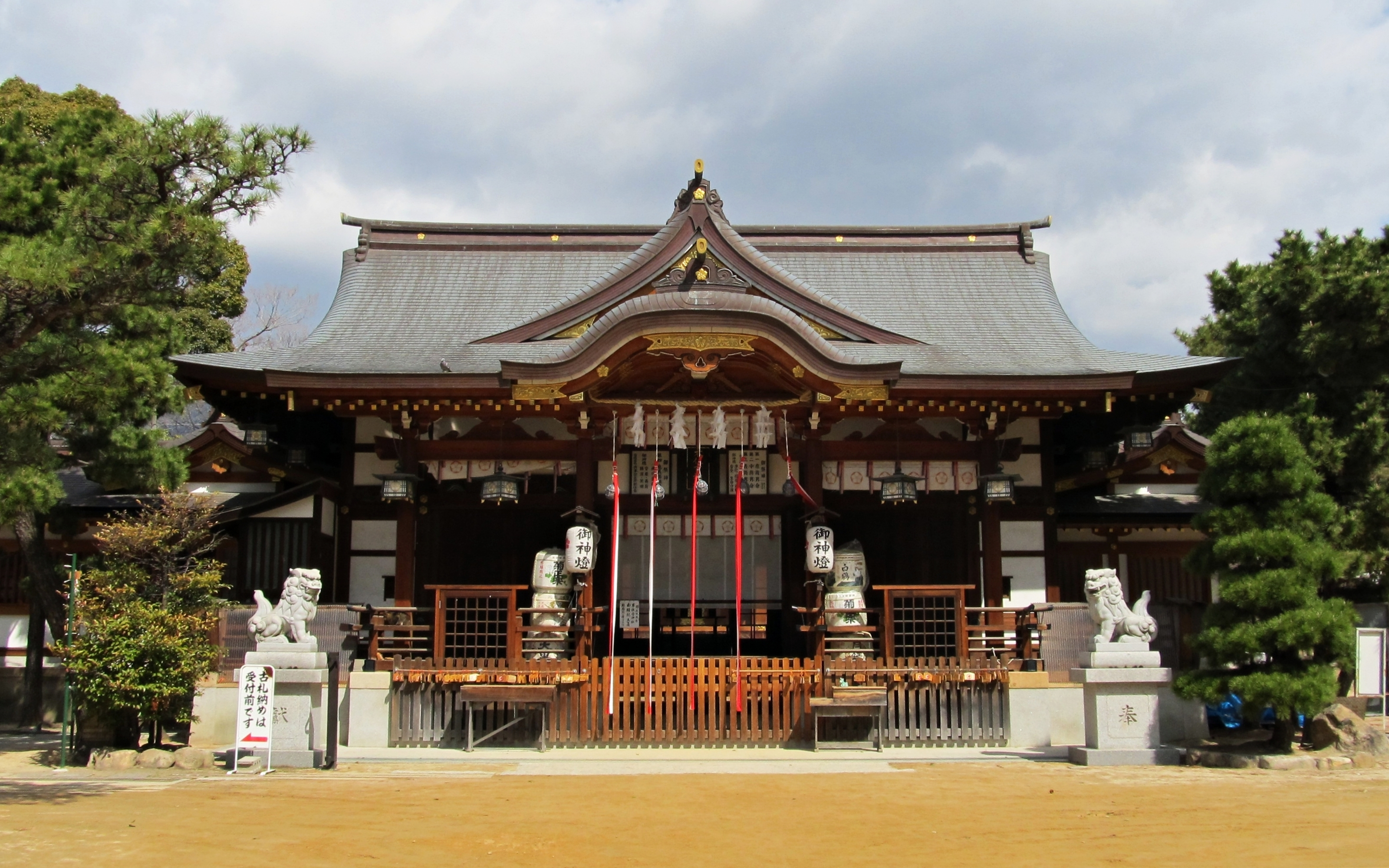 Motosumiyoshi-Jinja (Higashinada-ku,Kobe,Hyogo Prefecture)